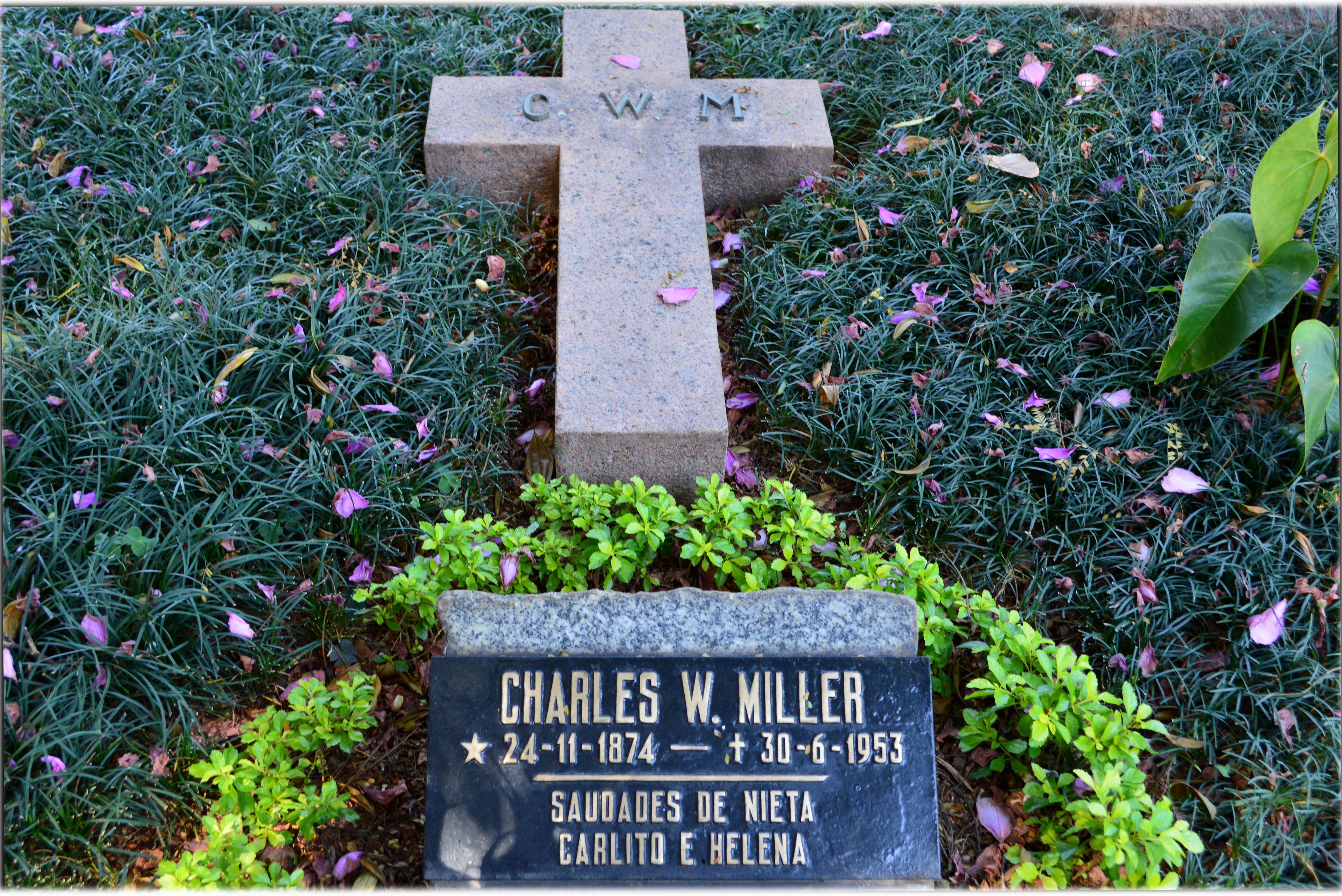 Charles Miller's grave at the ^Cemitério dos Protestantes